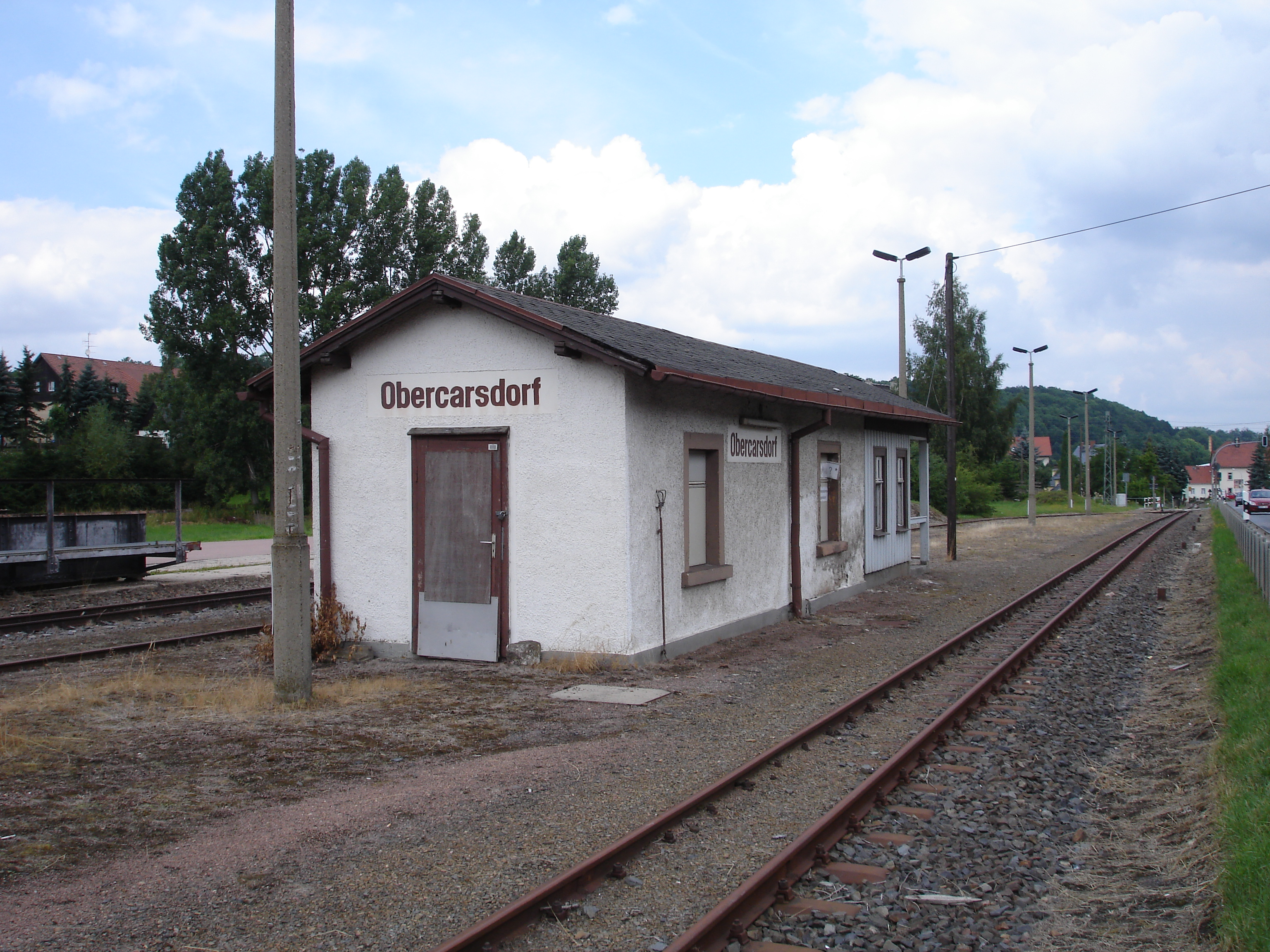 station Obercarsdorf, Weißeritztalbahn, Saxony, Germany